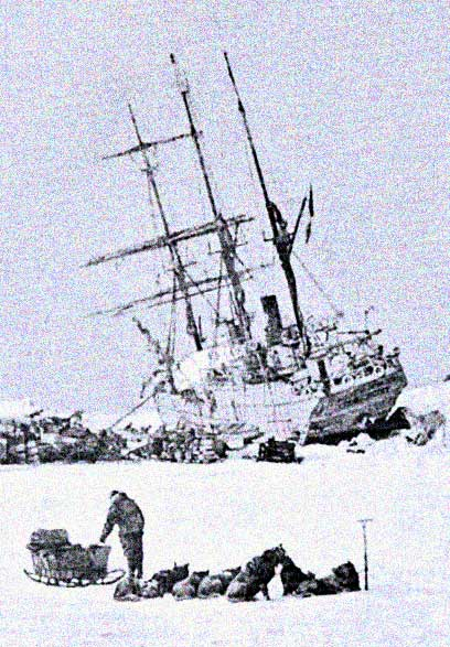 Stella Polare in Arctic 1899. Ex. Jason (1881)